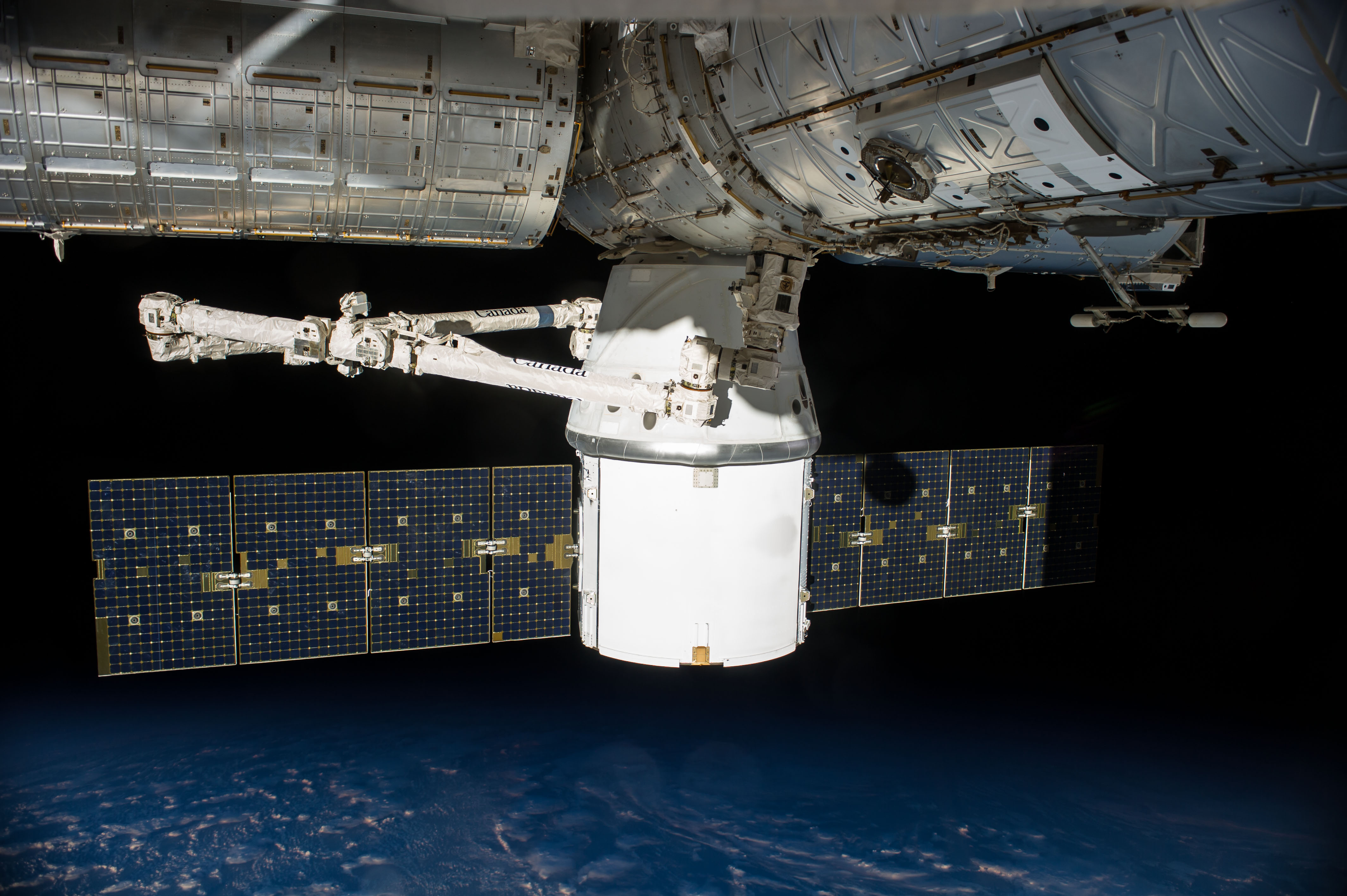 SpaceX's uncrewed Dragon cargo spacecraft is docked to the International Space Station after arriving on Sept. 23 with a load of supplies and equipment for the three crew members currently onboard the orbital outpost and the three who will join them soon.